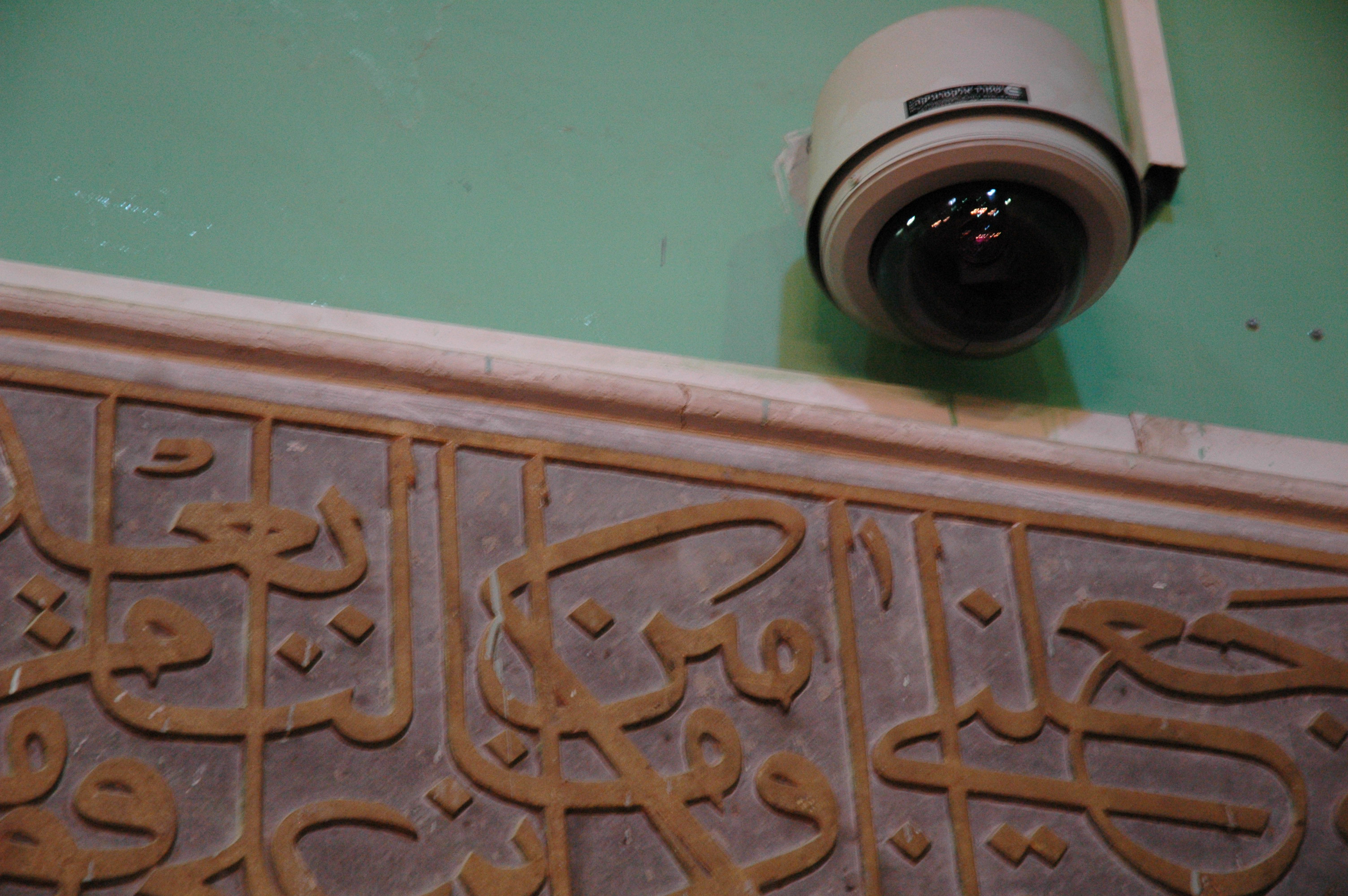 Hebron. A security camera watches 24 hours a day inside the Cave of the Patriarchs.